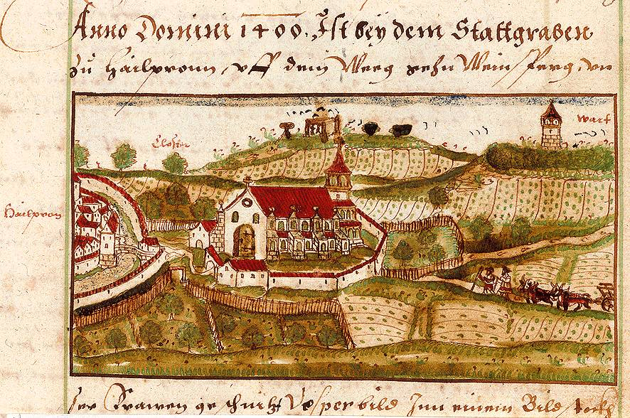 Heilbronn Carmelite monastery ca. 1600. Taken from the Hall chronicle of Georg Widmann, 1608/10.